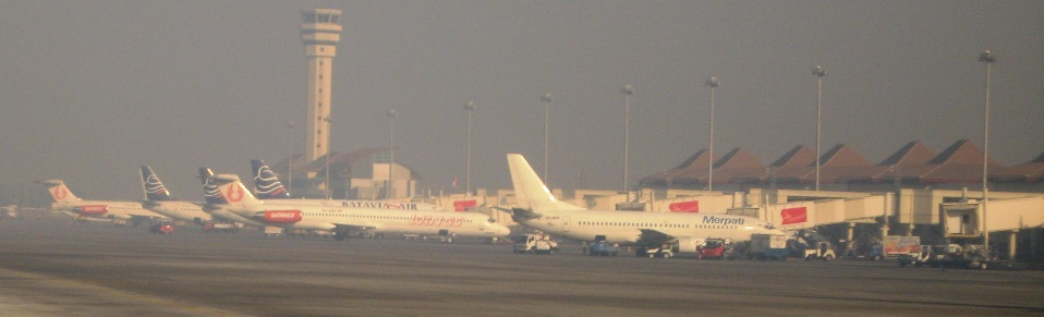 Juanda International Airport, Surabaya